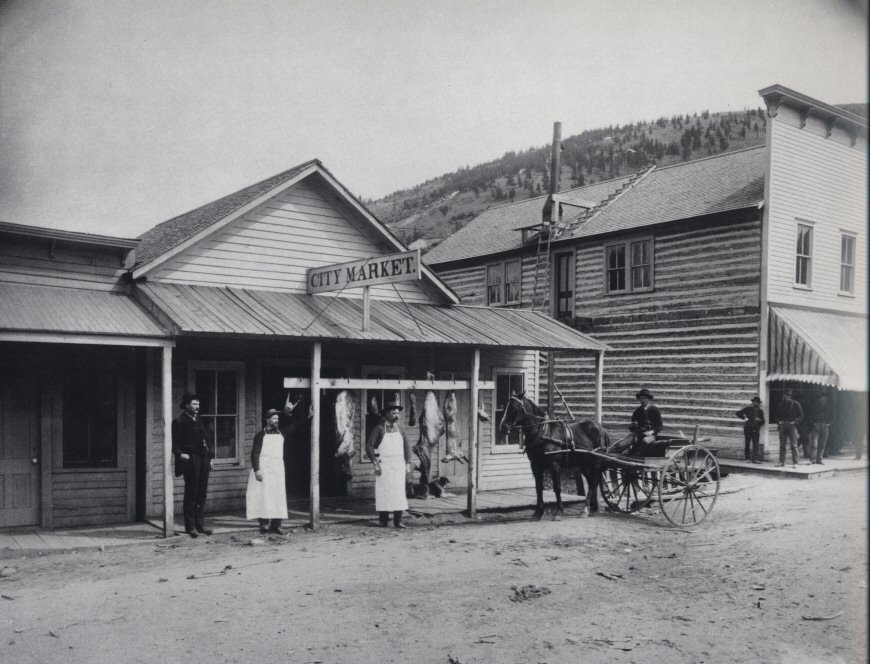 J.P. McDonnell, City Meat Market, Marysville, Montana, 1889